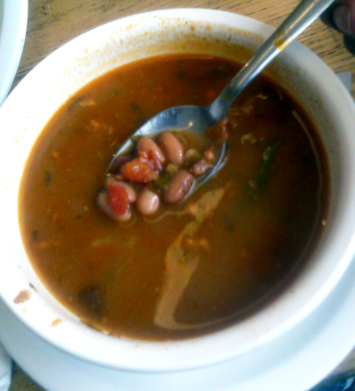 Frijoles charros (charro beans)